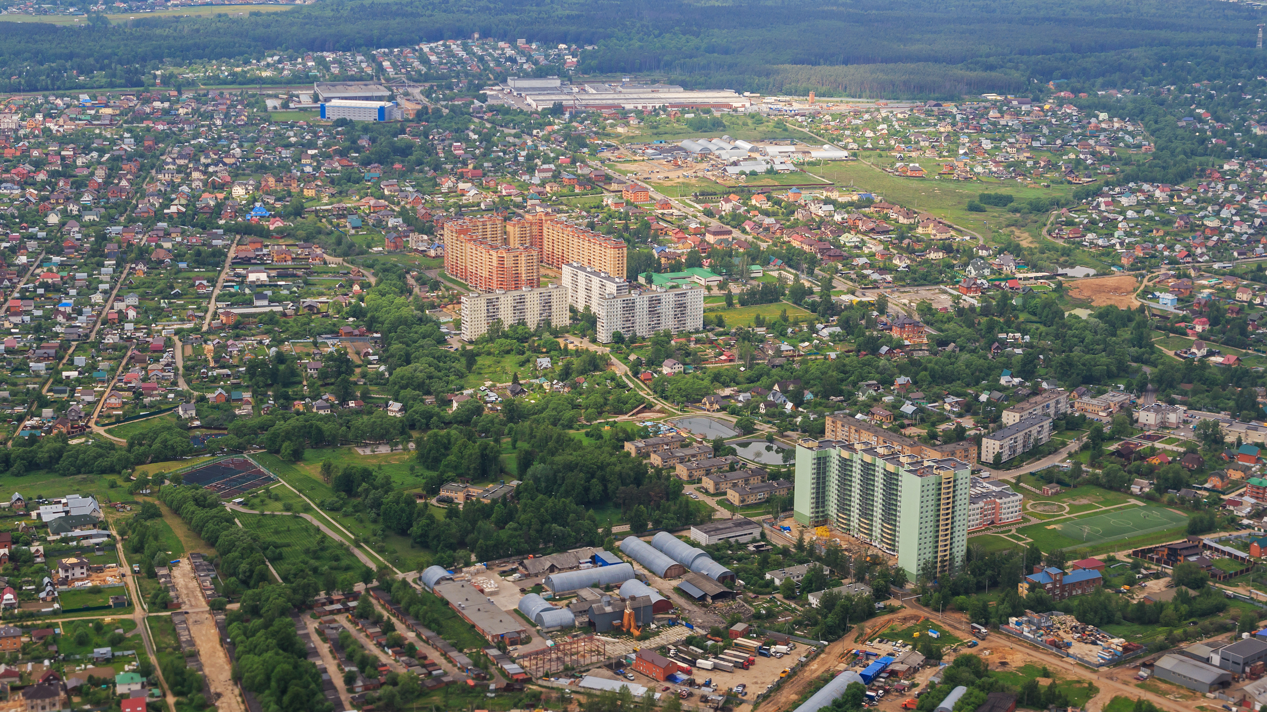 Aerial photo of Marushkino in Moscow (New Moscow Okrug), taken from departing aircraft